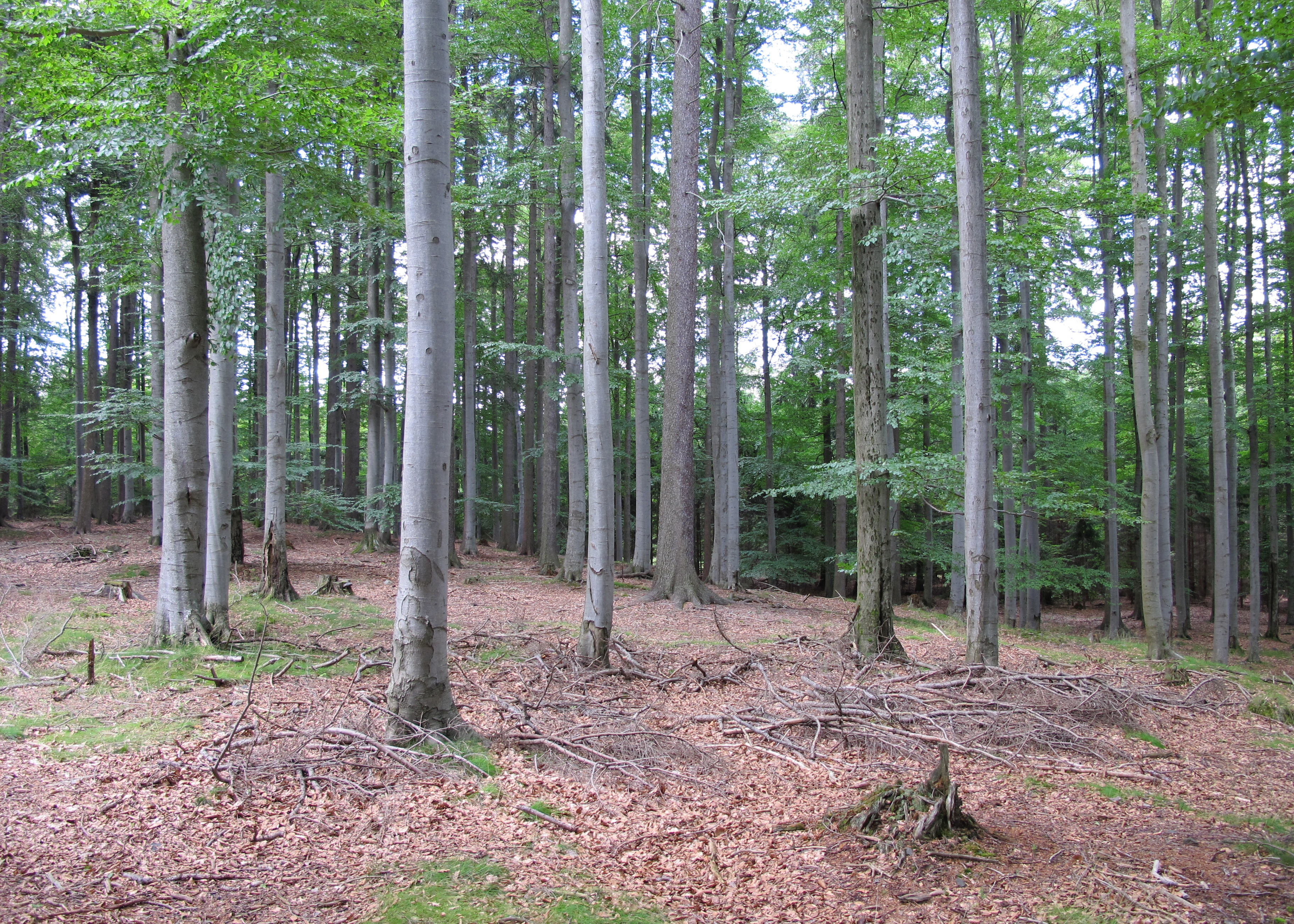 Forest in Nature park Třemšín, Příbram District in Czech Republic